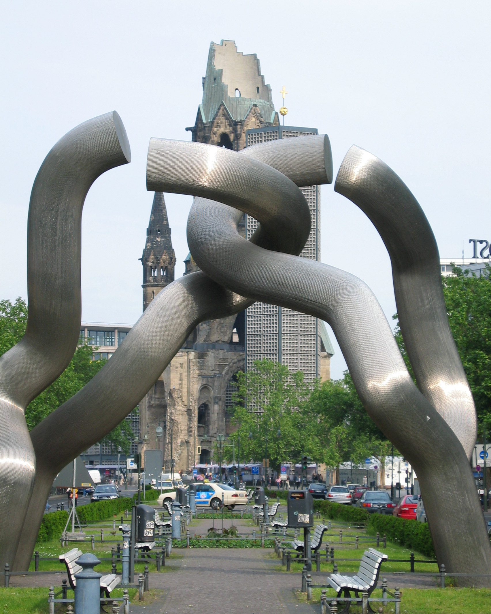 I'm probably the 5000th person to see that the sculpture lines up on the Gedachtniskirche, but it still makes for a neat photo